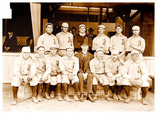 1903 Philadelphia Athletics baseball teamTop row, left to right: Ossee Schreckengost, Chief Bender, Rube Waddell, Weldon Henley, Tad Quinn, Harry DavisBottom row, left to right: Danny Murphy, Danny Hoffman, Doc Powers, Lave Cross, Connie Mack, Topsy Hartsel, Monte Cross, Socks Seybold